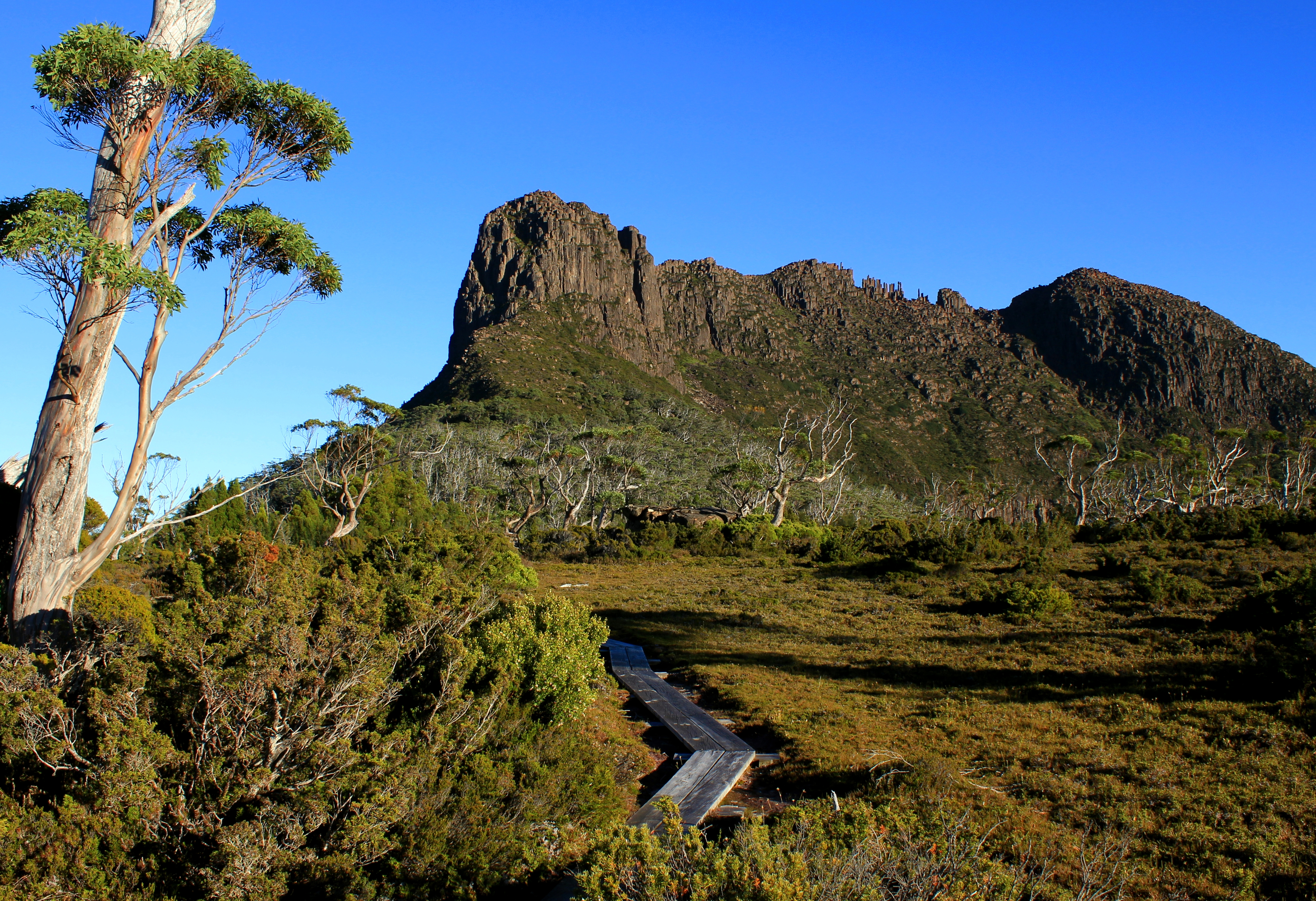 The south face of The Acropolis, on the way up from Pine Valley.